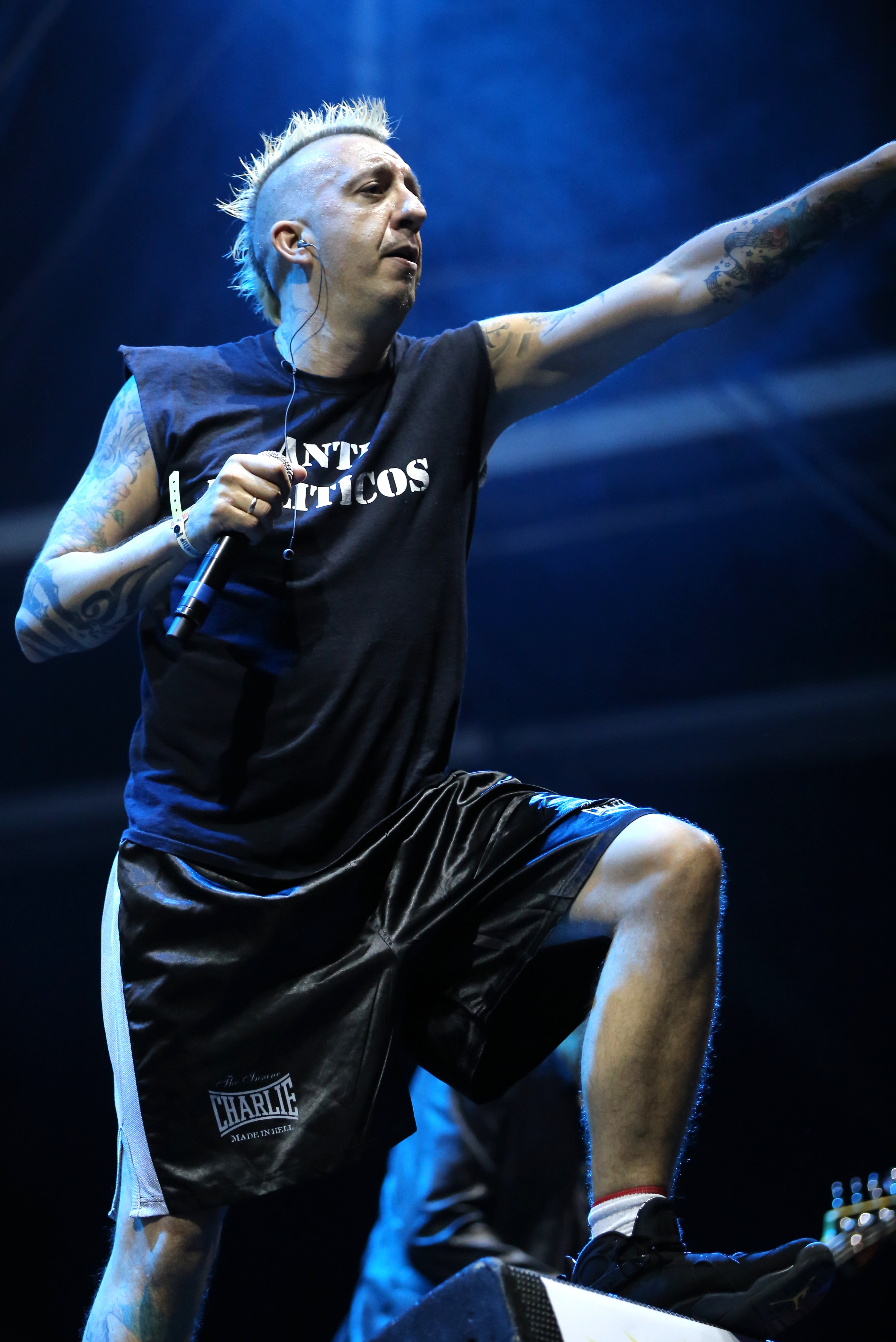 Ska-P at Chiemsee Reggae Summer Festival 2013